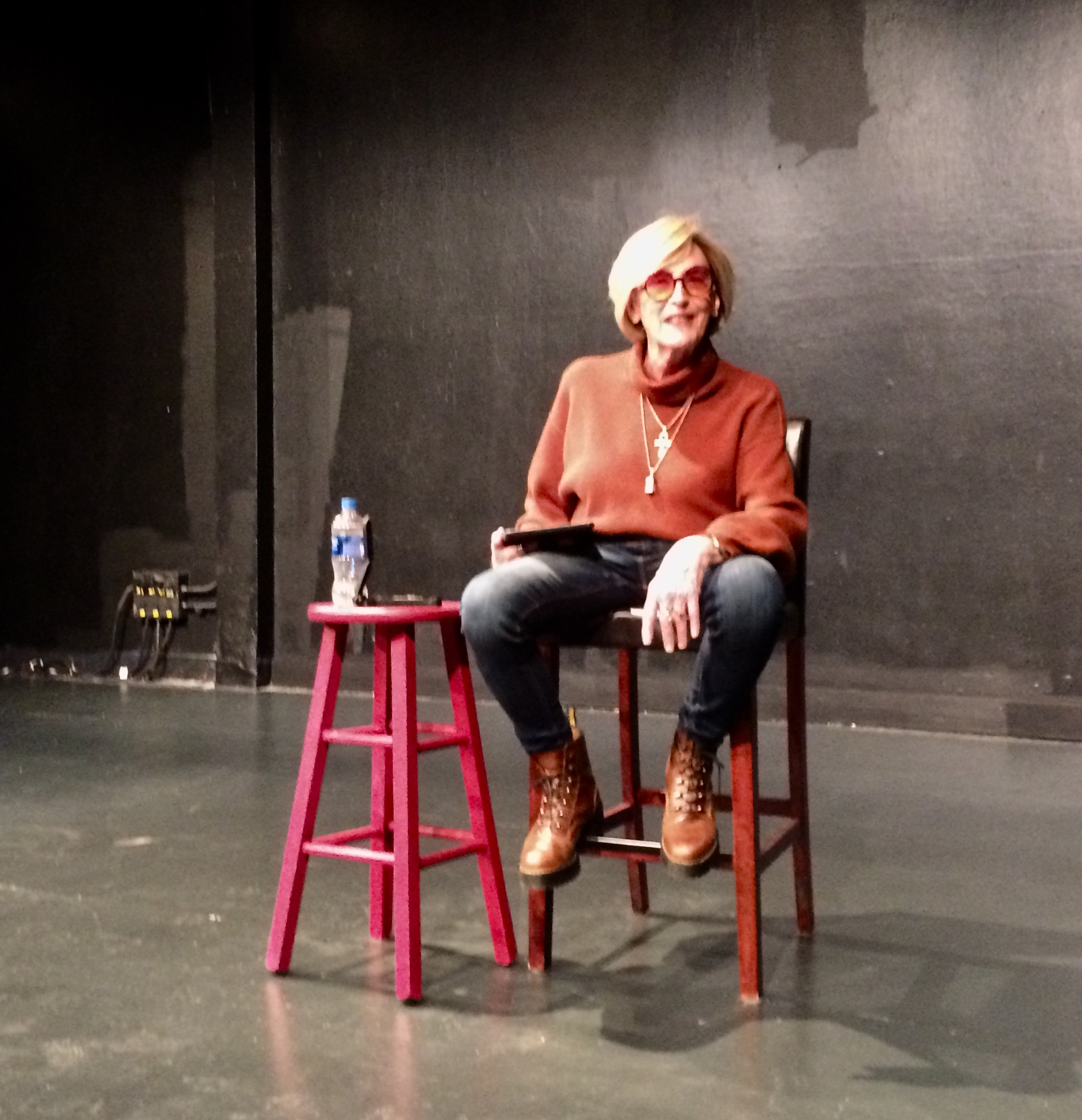 see caption